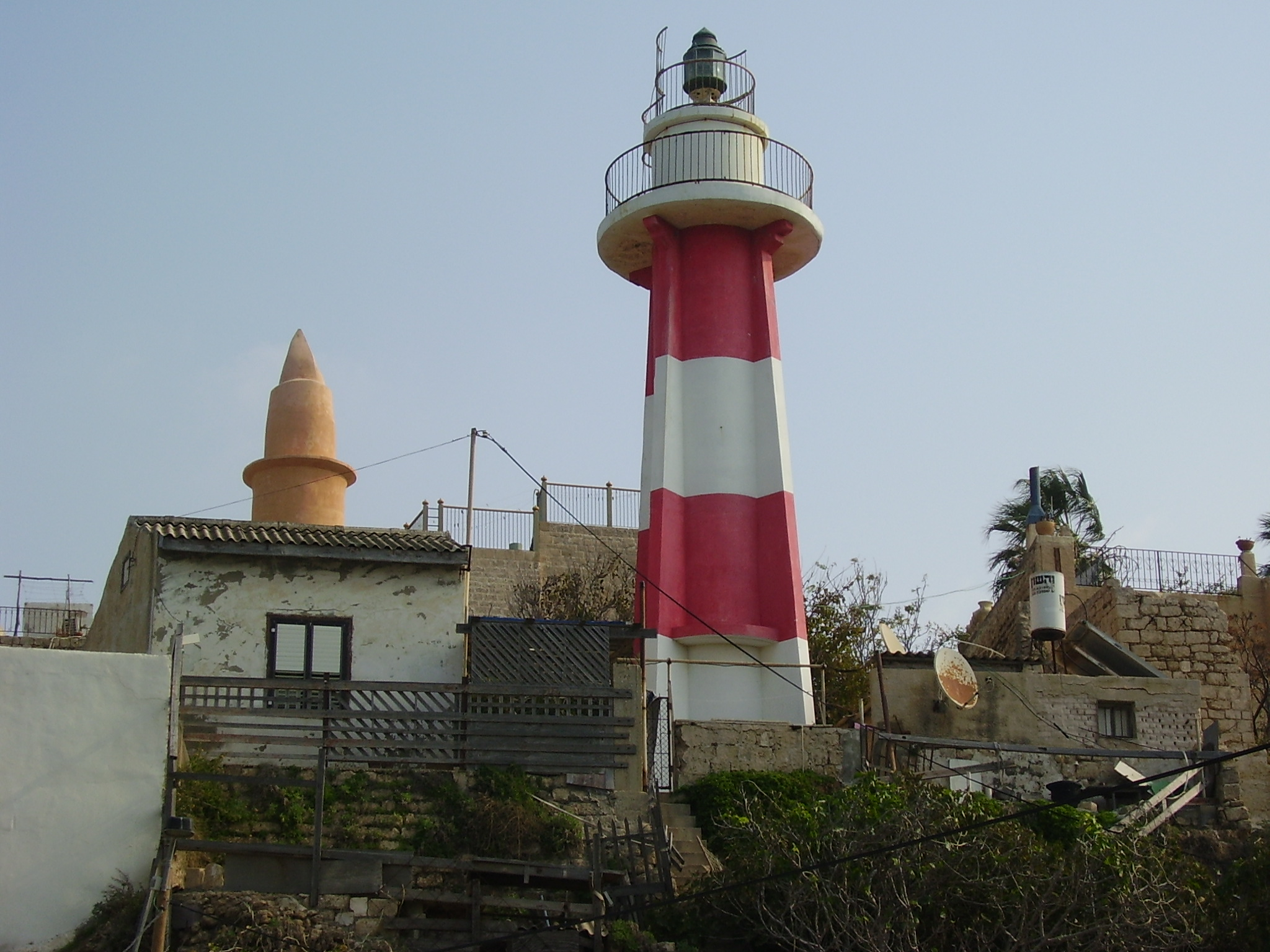 Jaffa Lighthouse המגדלור ביפו